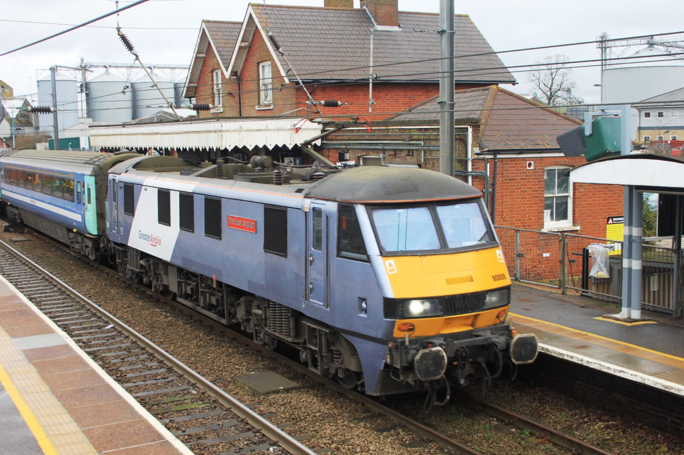 90008 arrives at Diss, Norfolk, with a Greater Anglia service from Norwich to London Liverpool Street.